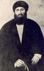 image of Seyyed Kazim Rashti